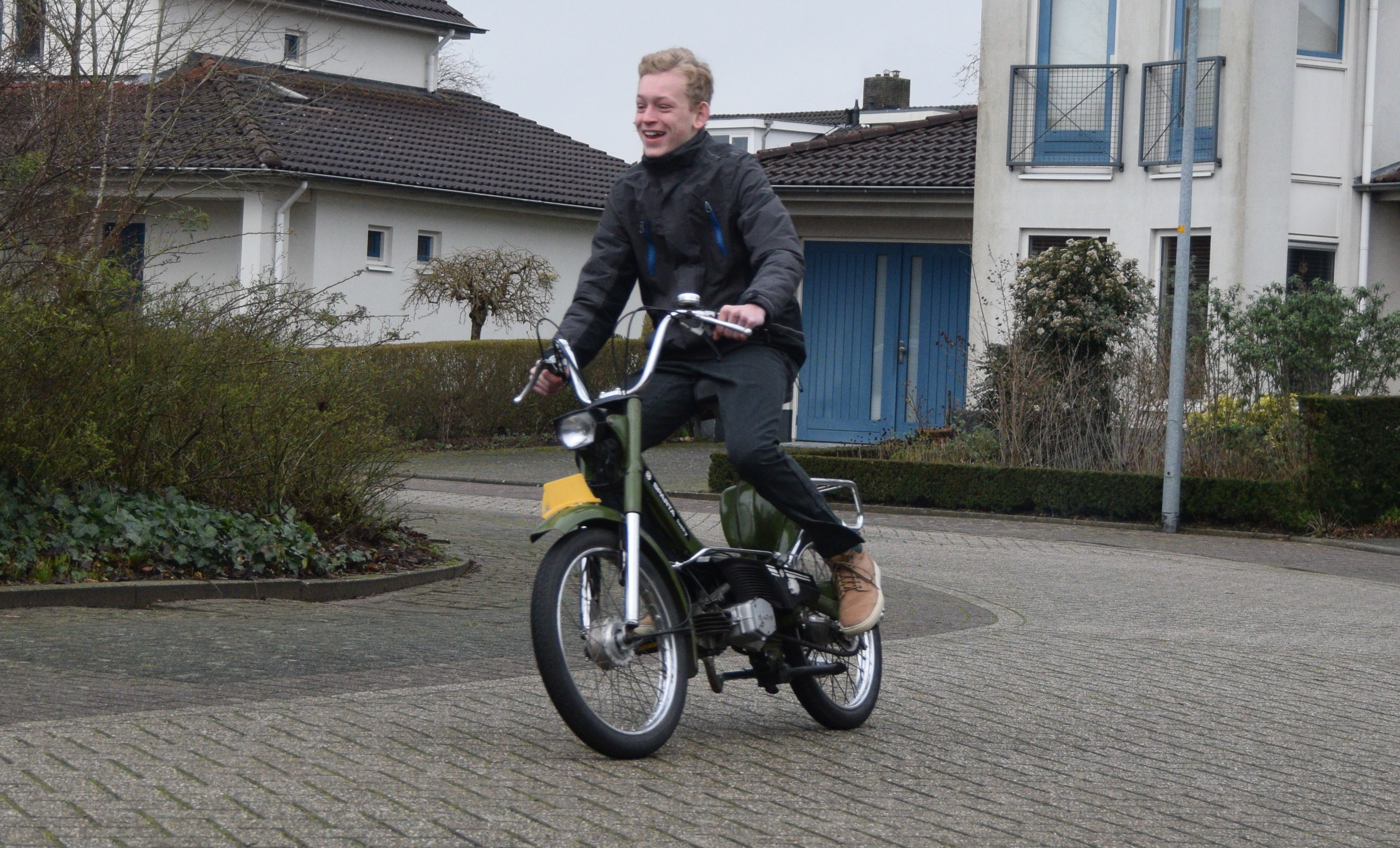 Boy driving a Sparta Lucky, built in 1973, restored to its original state in 2014/2015.